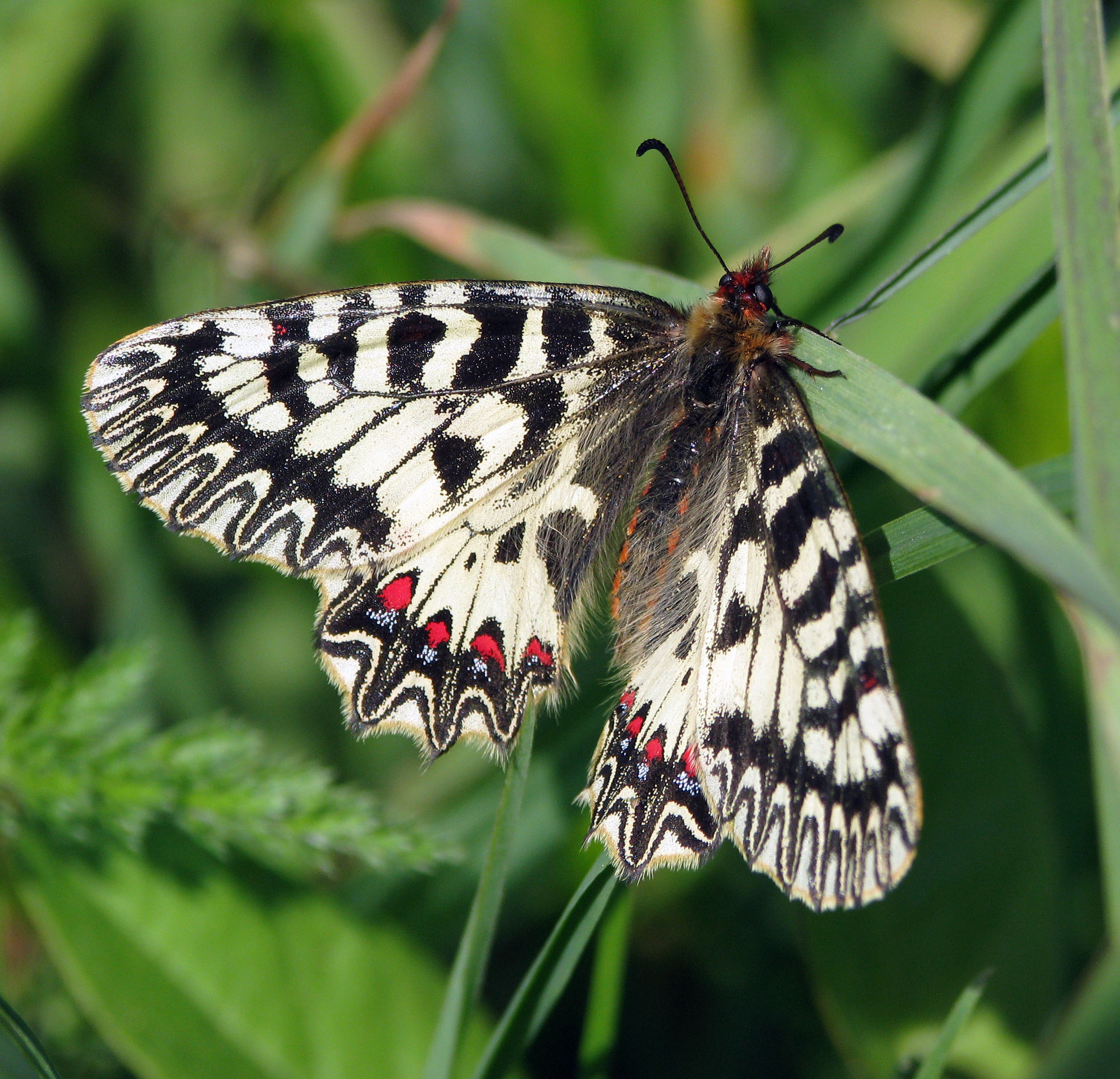 Zerynthia polyxena